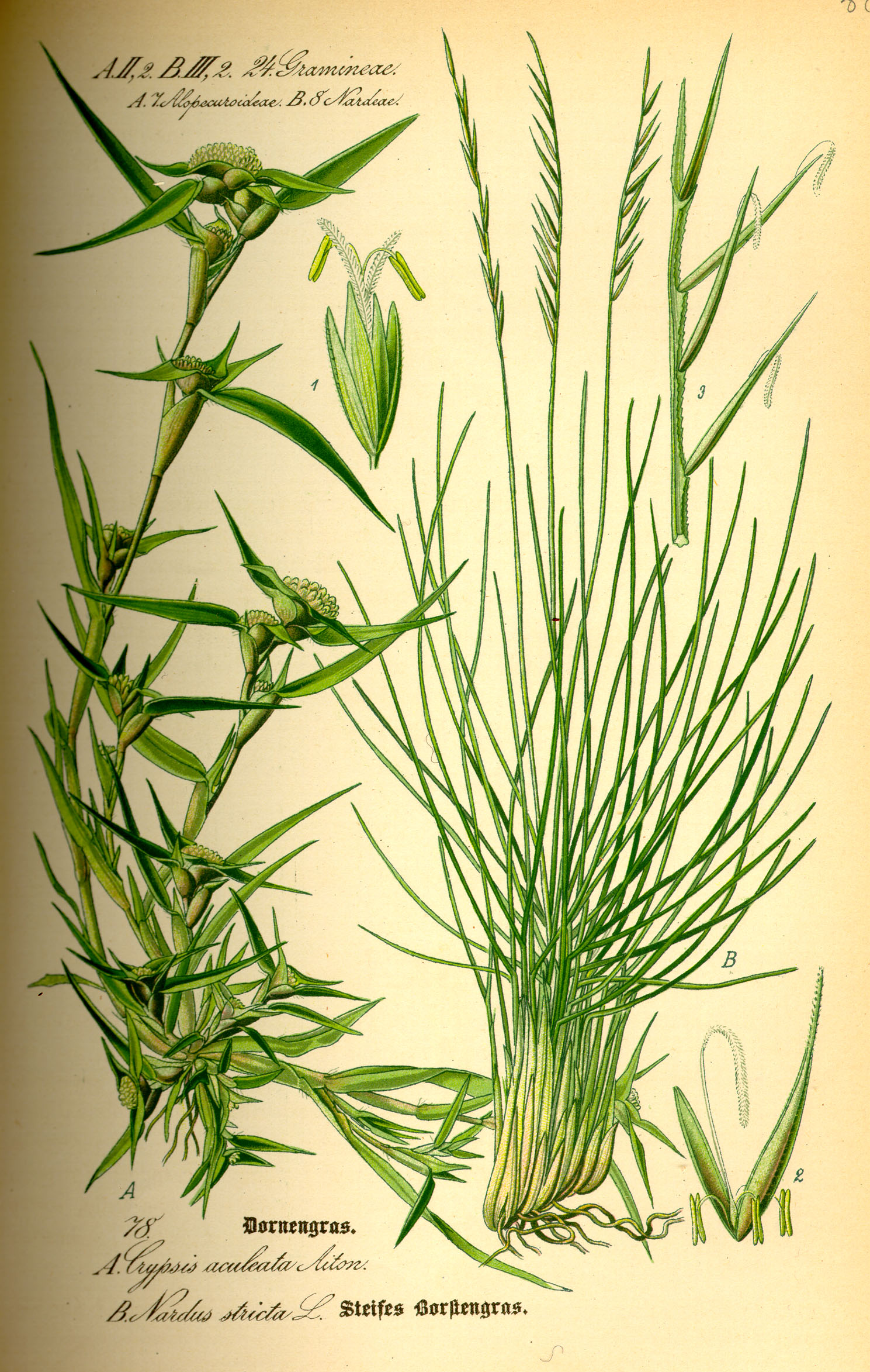 Nardus stricta and Crypsis aculeata